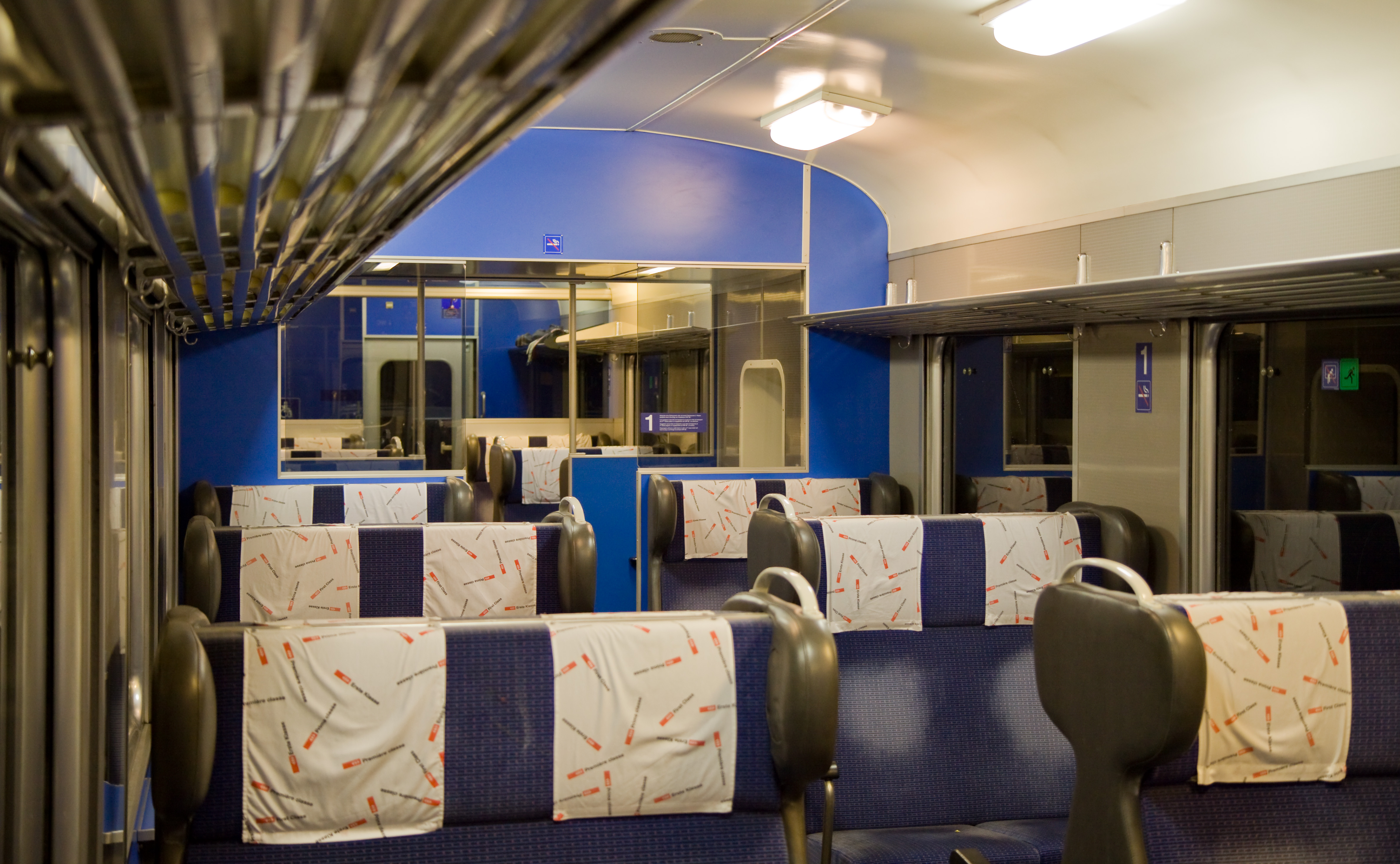 First class interior of a modernized SBB-CFF-FFS RABDe 12/12 "Mirage" electric multiple unit. The weird separation in the middle of the carriage is a remainder from doors that were removed during the rebuild in the late 1990s.